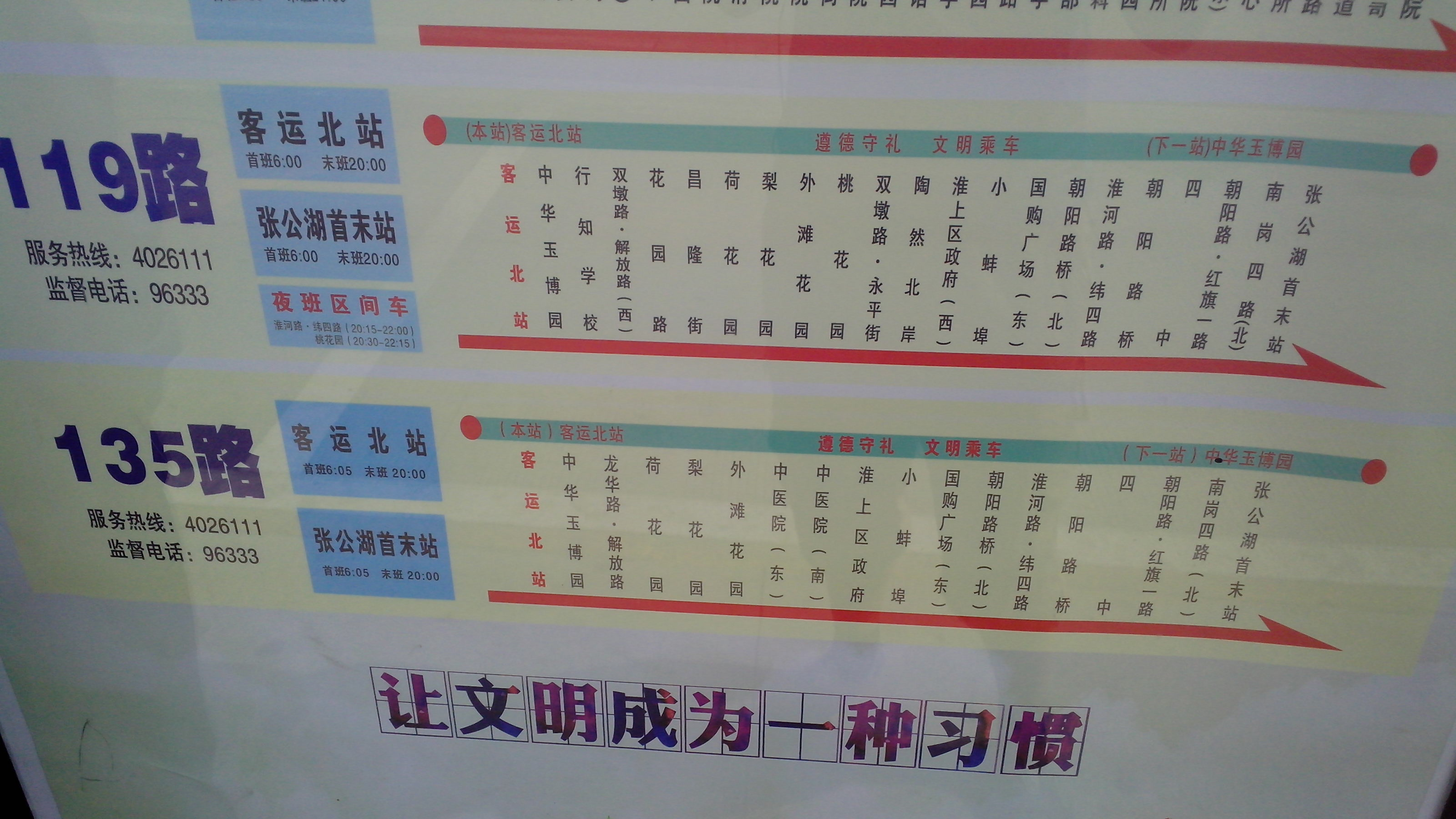 中文（中国大陆）: Bengbu Bus No.119&135 Bus stop plate